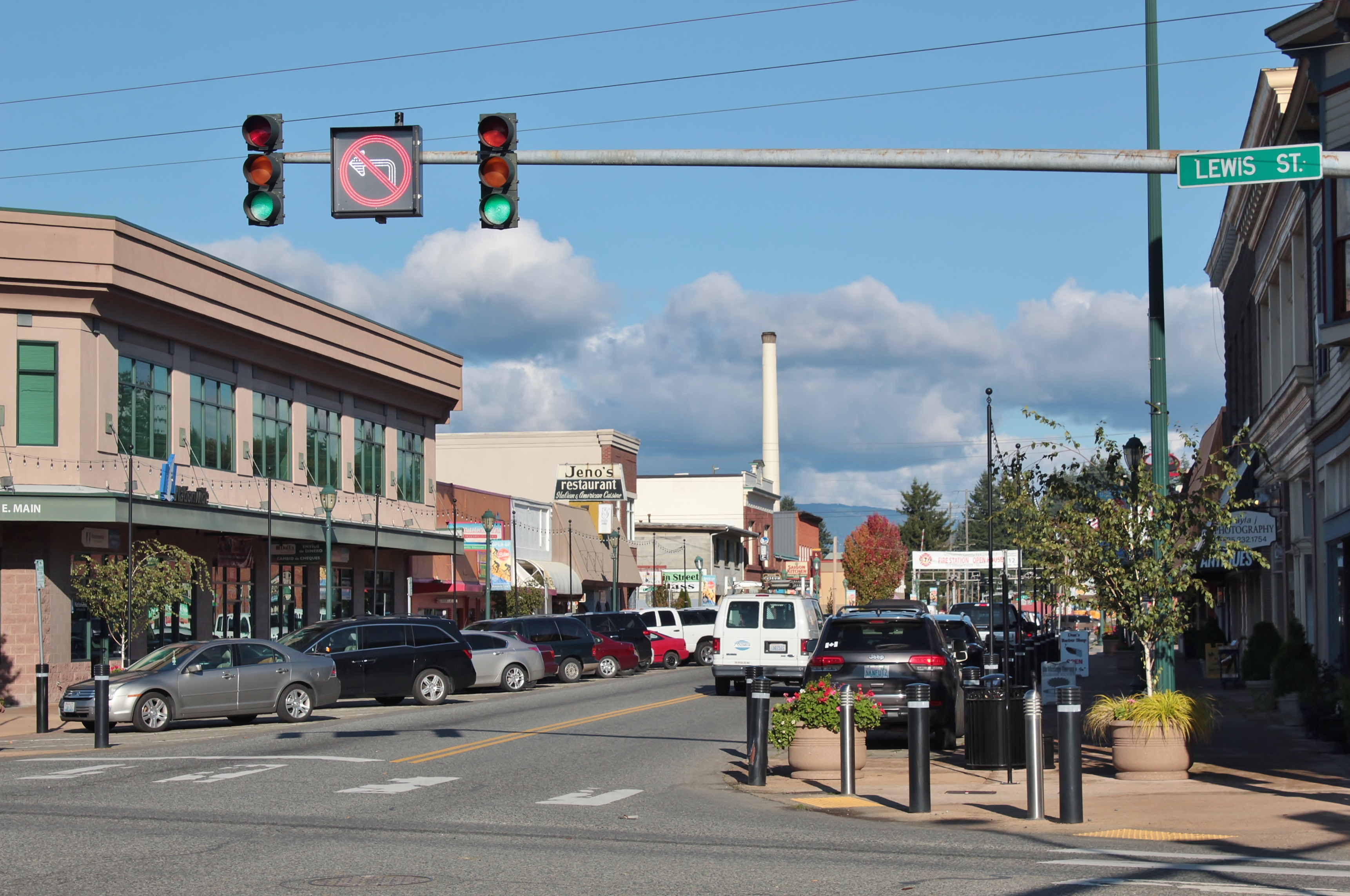 Looking east at the intersection of Main Street and Lewis Street (Washington State Route 203) in downtown Monroe, Washington.